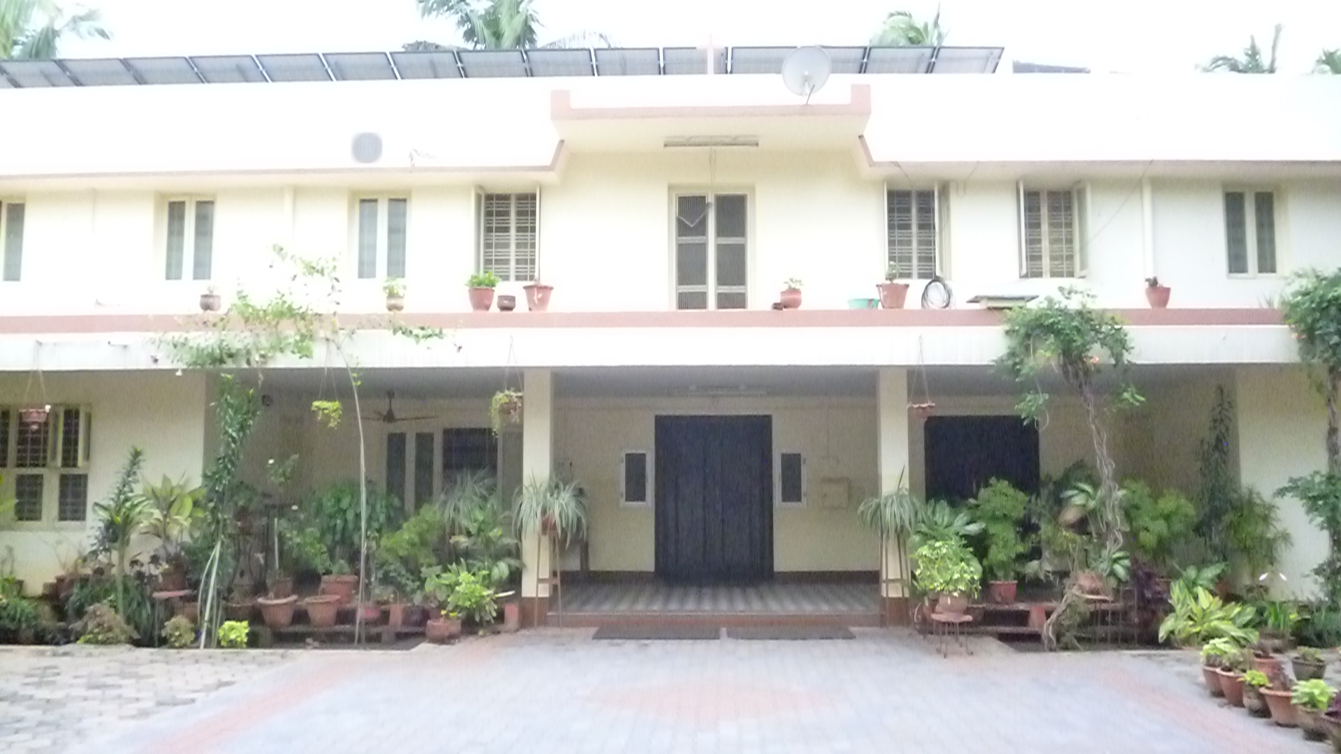 Convent of SJAIHSS, Perambur, Chennai